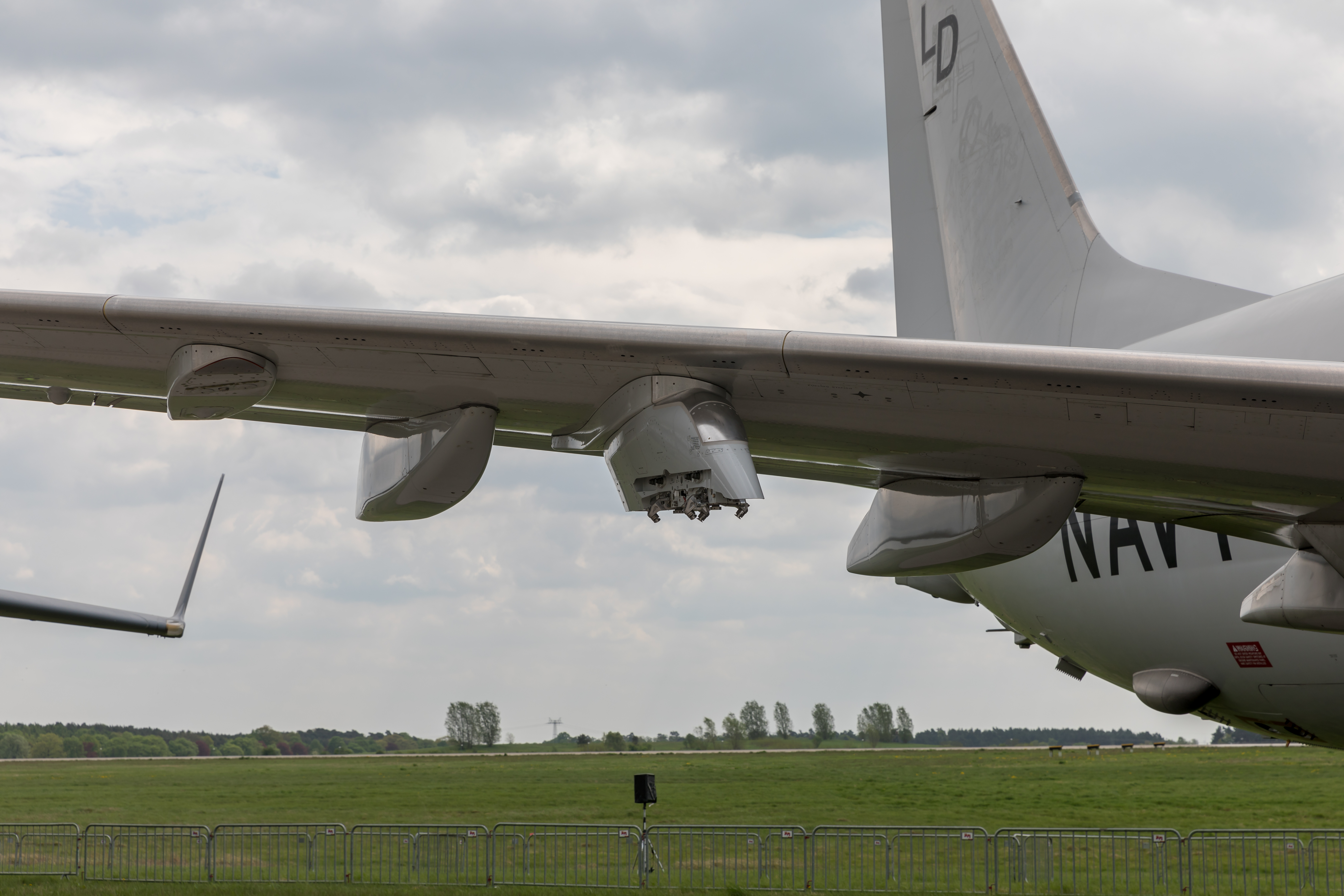 hardpoint of a Boeing P-8 Poseidon, ILA 2018